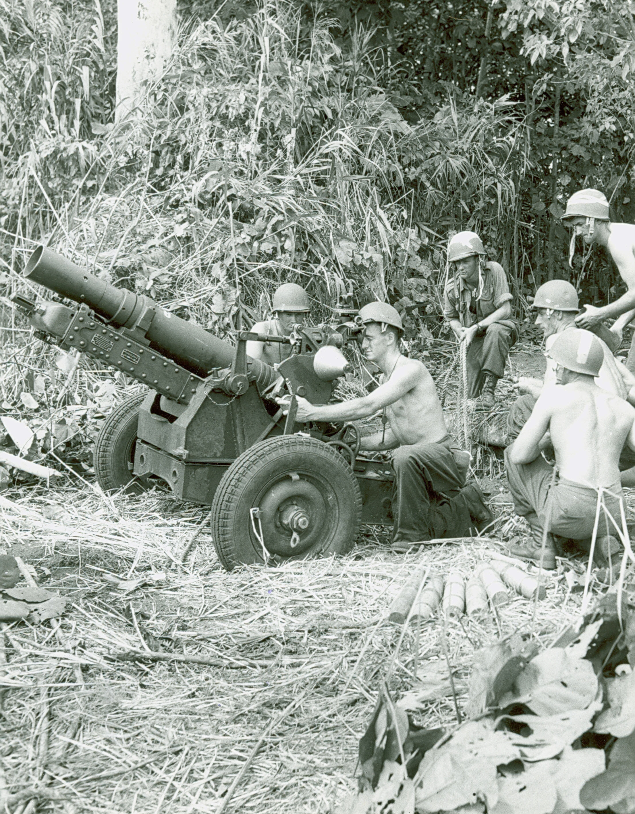 Airborne artillerymen man a 75 mm howitzer near the completed airstrip at Nadzab, September, 1943. (World War II Signal Corps Collection).